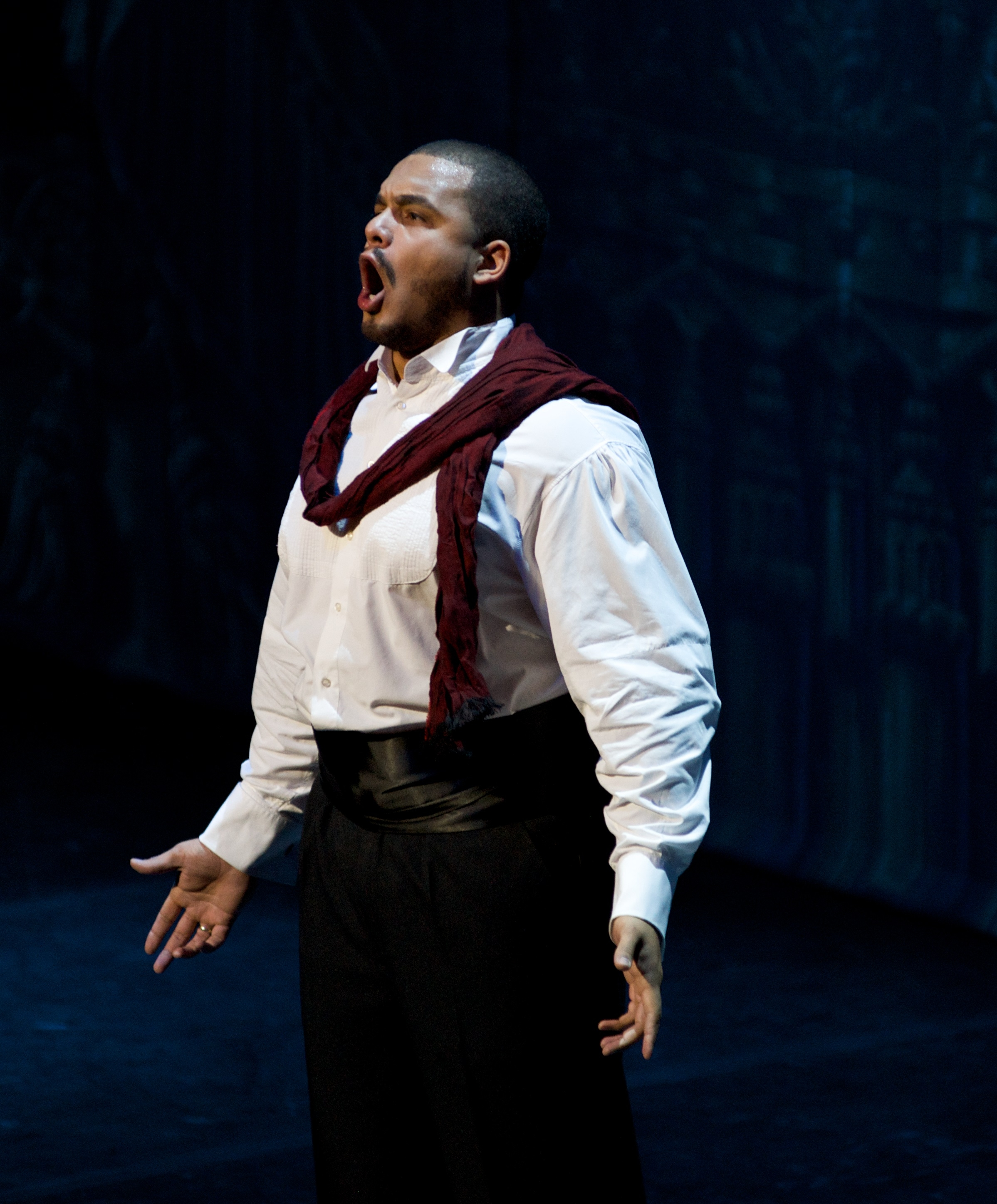 Filip Bandžak